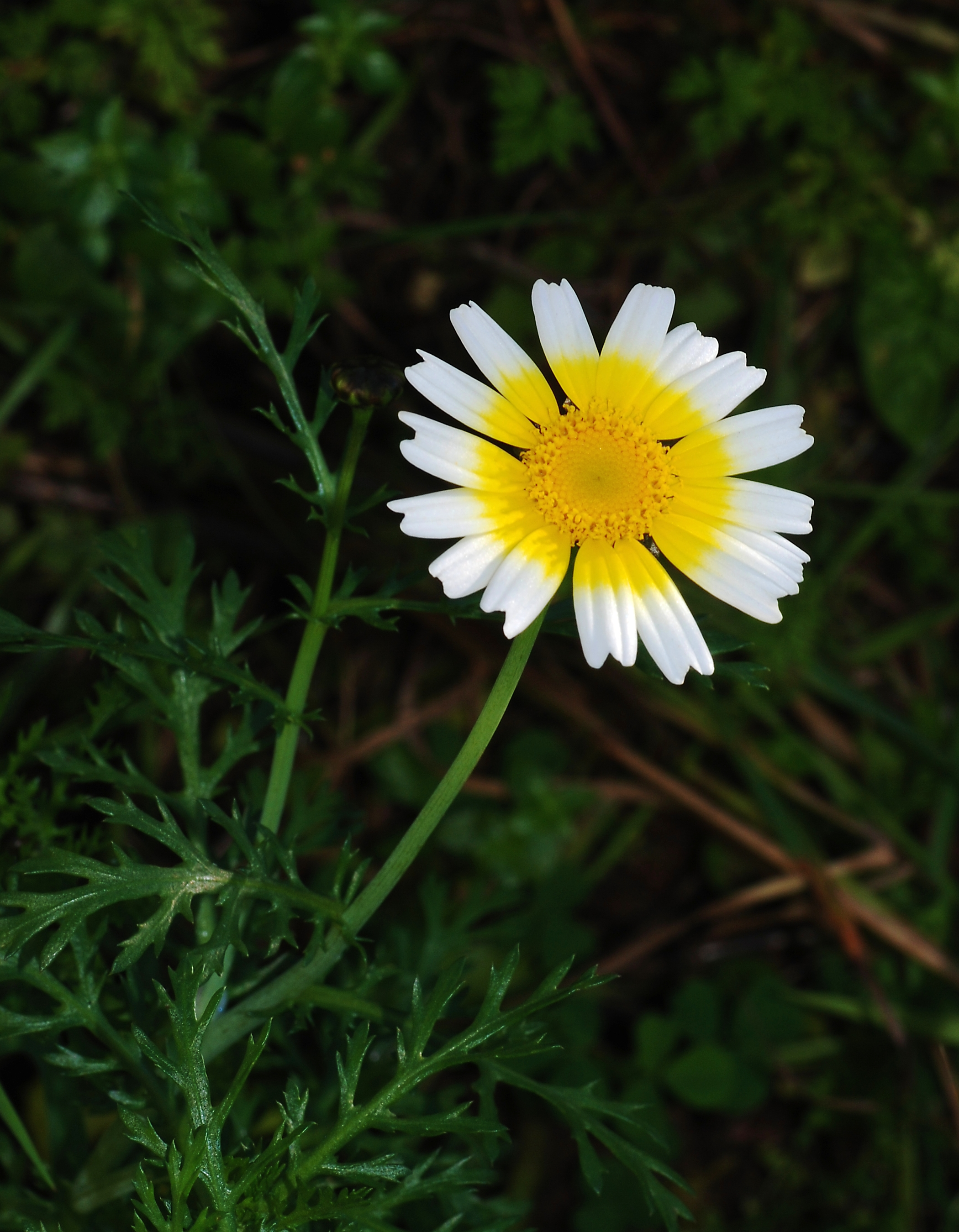 Flower and leaves of a Crown Daisy (Glebionis coronaria var. discolor)